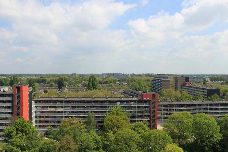 View over Alphen aan den Rijn